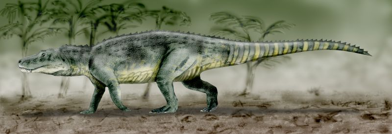 Saurosuchus galilei, a rauisuchian from the Late Triassic of Argentina